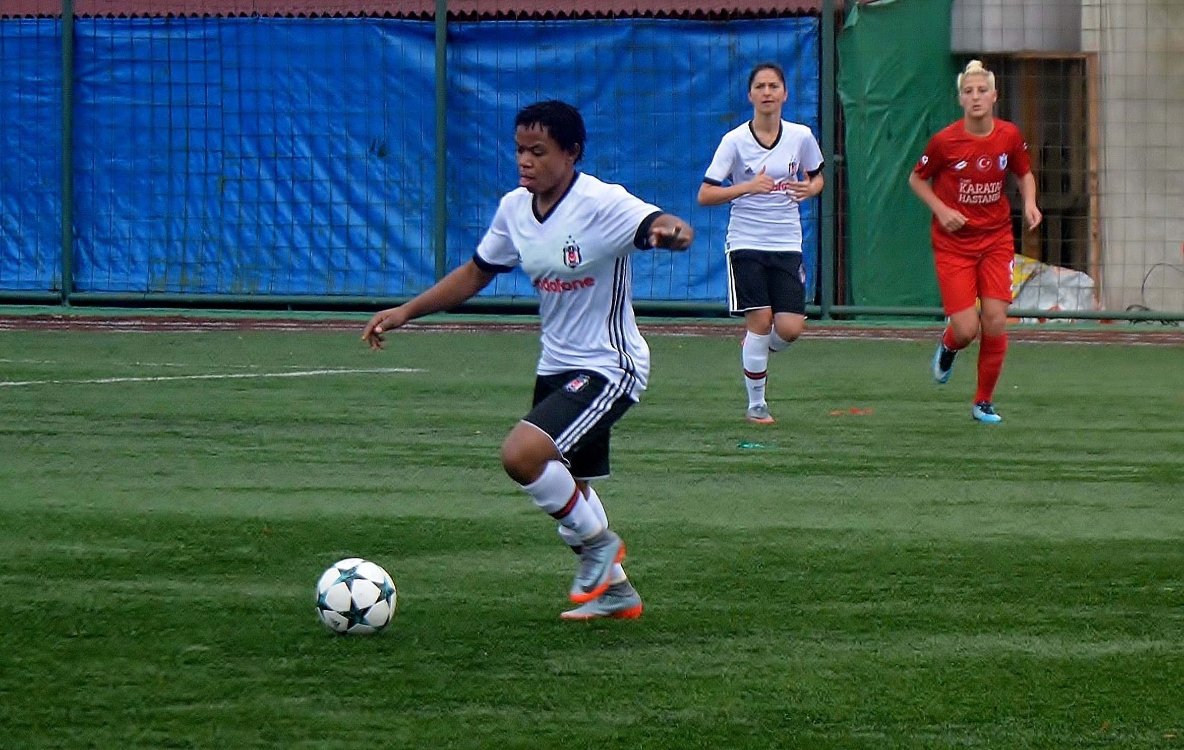 Jacquette Ada for Beşiktaş J.K. in the 2017-18 season.